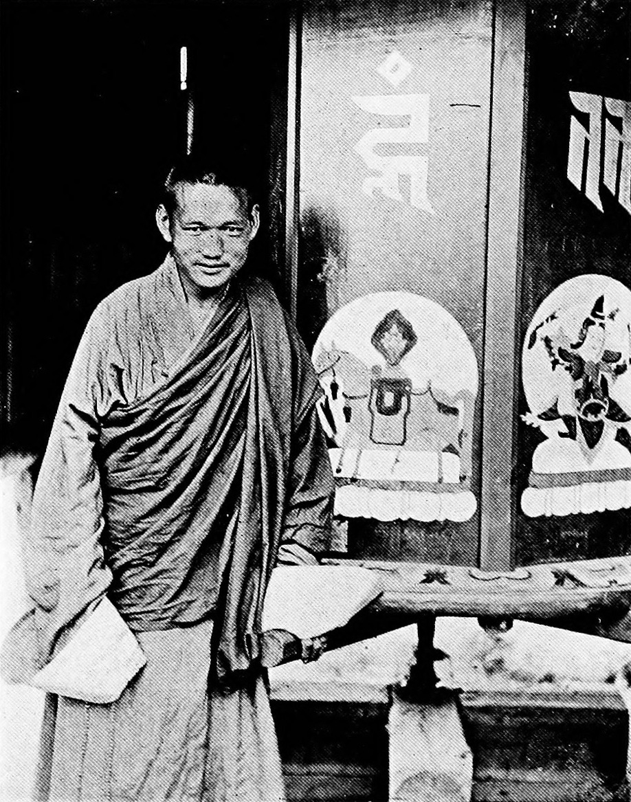 Photo from Across Mongolian Plains A Naturalist's Account of China's "Great Northwest"